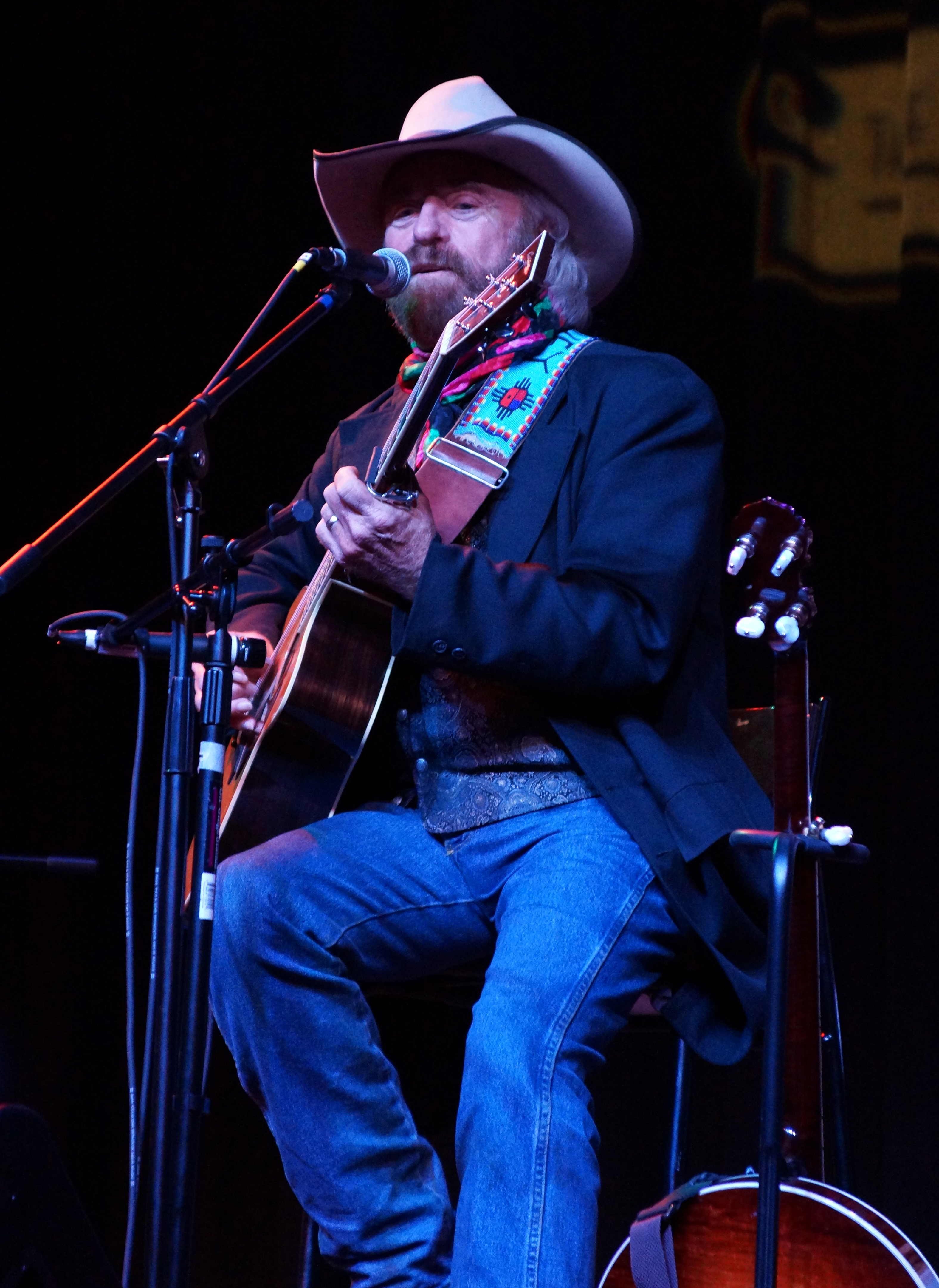 Michael Martin Murphey at The Flying Monkey, Plymouth, New Hampshire, October 13, 2012